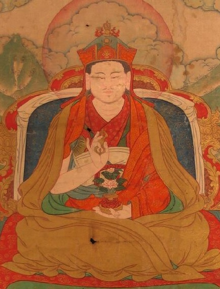 Chokgyur Lingpa, b.1829 - d.1870, Nyingma Terton